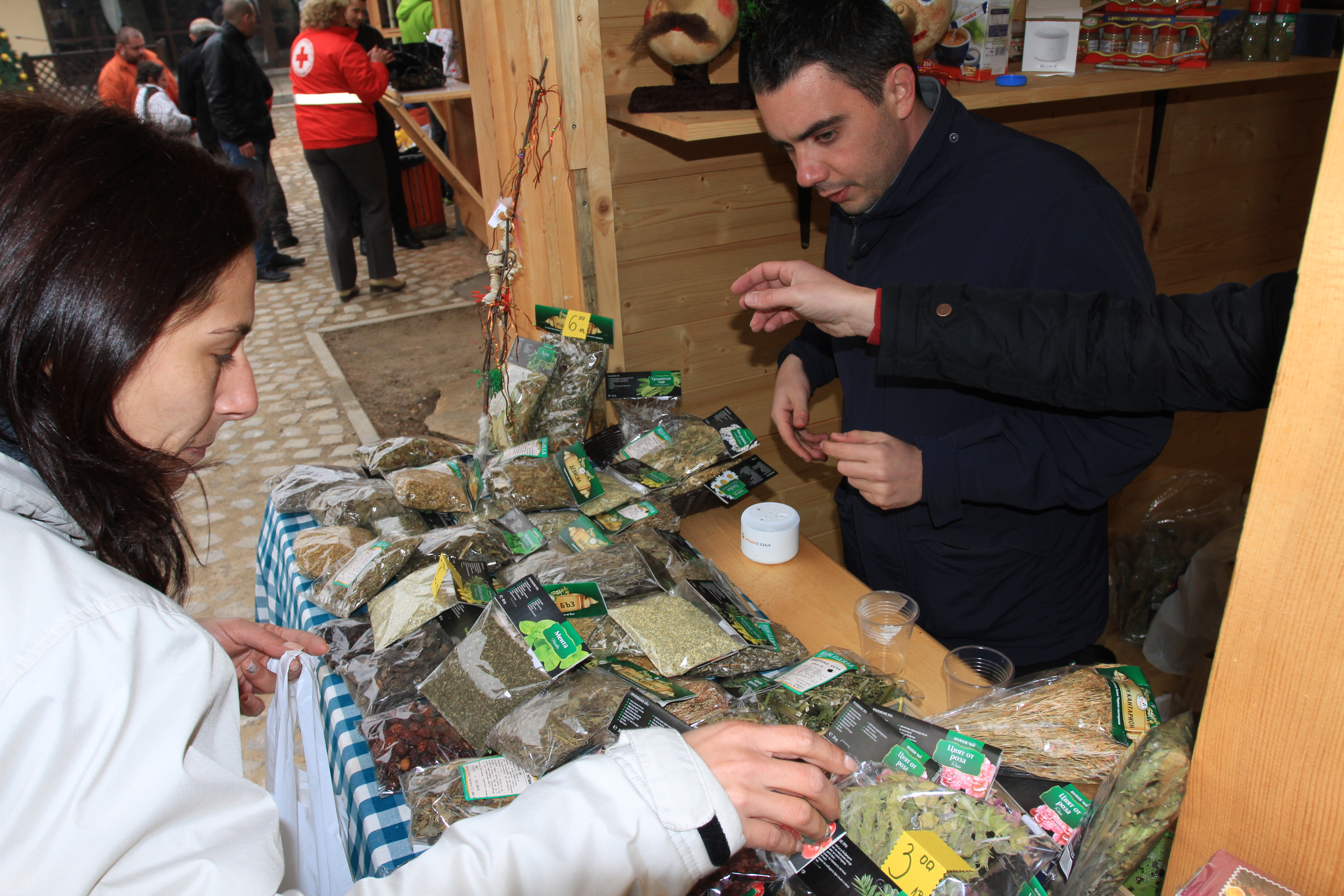 Shop for traditional Bulgarian spices This photo has been taken in the country: Bulgaria